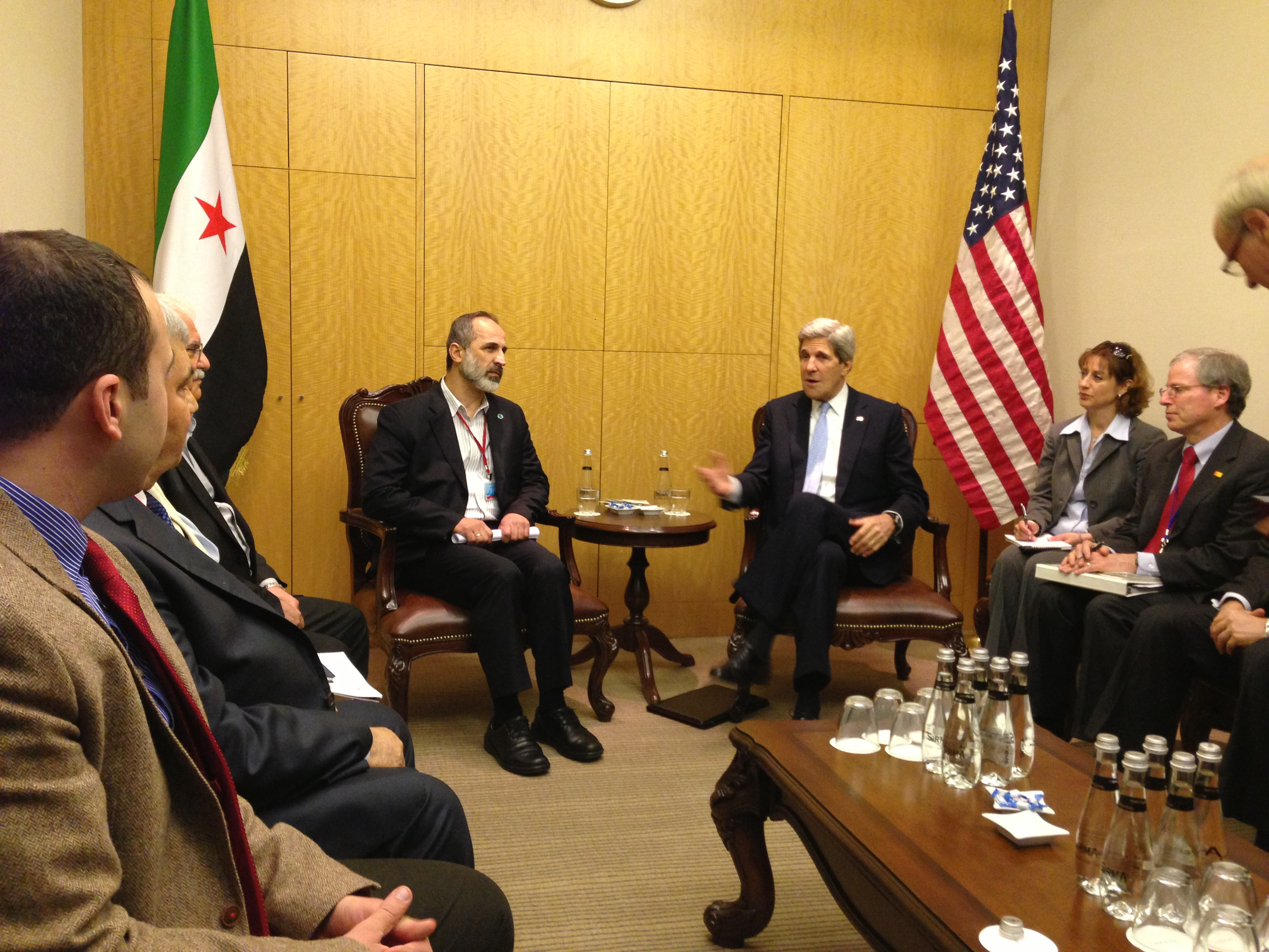 U.S. Secretary of State John Kerry meets with Syrian Opposition Council Chairman Moaz al-Khatib in Istanbul, Turkey on April 20, 2013. [State Department photo/ Public Domain]